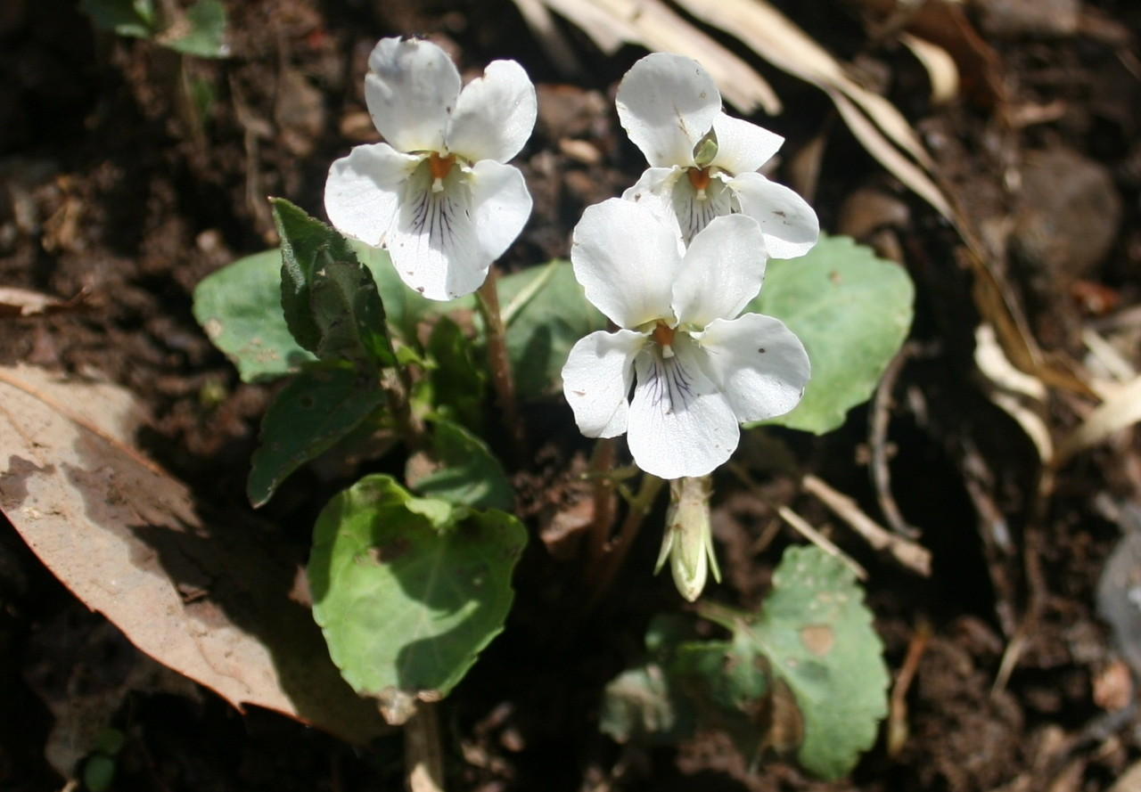 Viola keiskei in Mount Funabuse, Gifu prefecture, Japan.